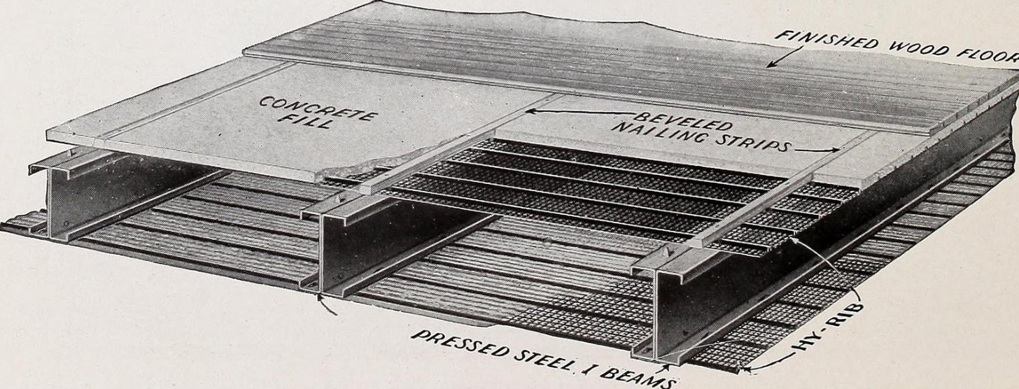 Hyrib metal lath truss